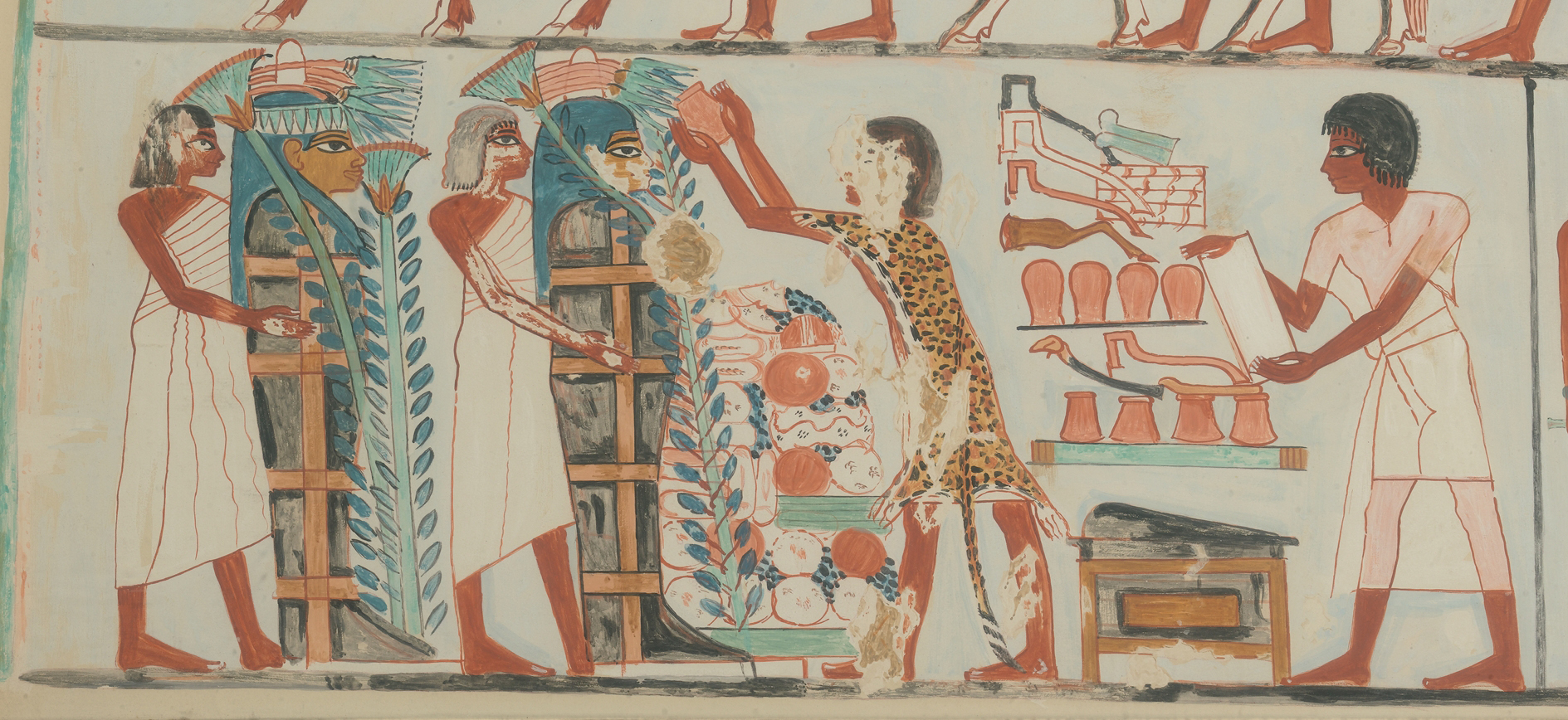 Facsimile, Pairy (TT 139), funeral